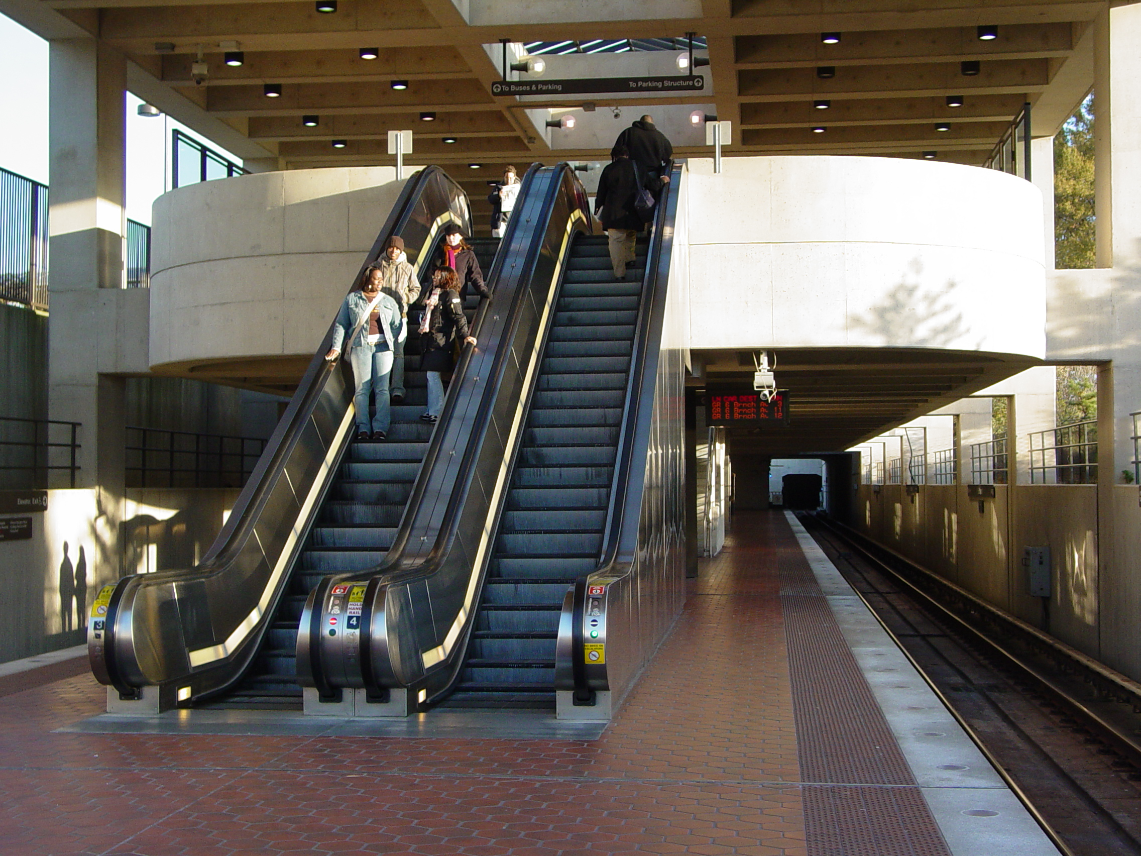 Suitland station, facing outbound direction, showing the mezzanine.